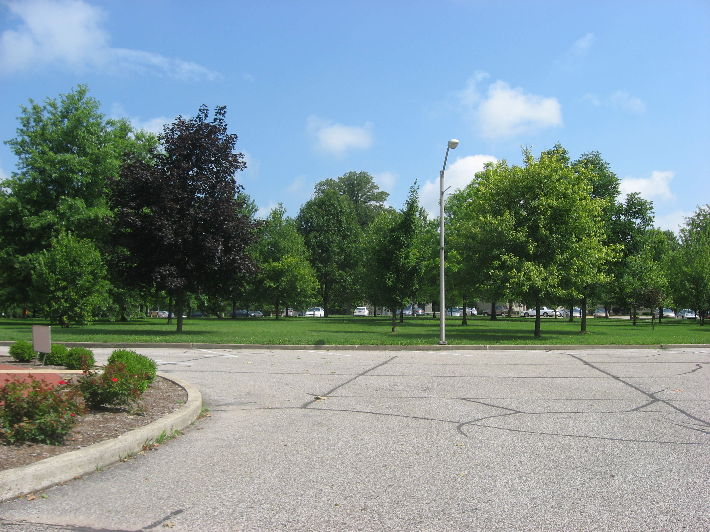 Site of Foley Hall on the campus of Saint Mary-of-the-Woods College in Saint Mary-of-the-Woods, Indiana, United States. Built in 1860, it is listed on the National Register of Historic Places despite its destruction.